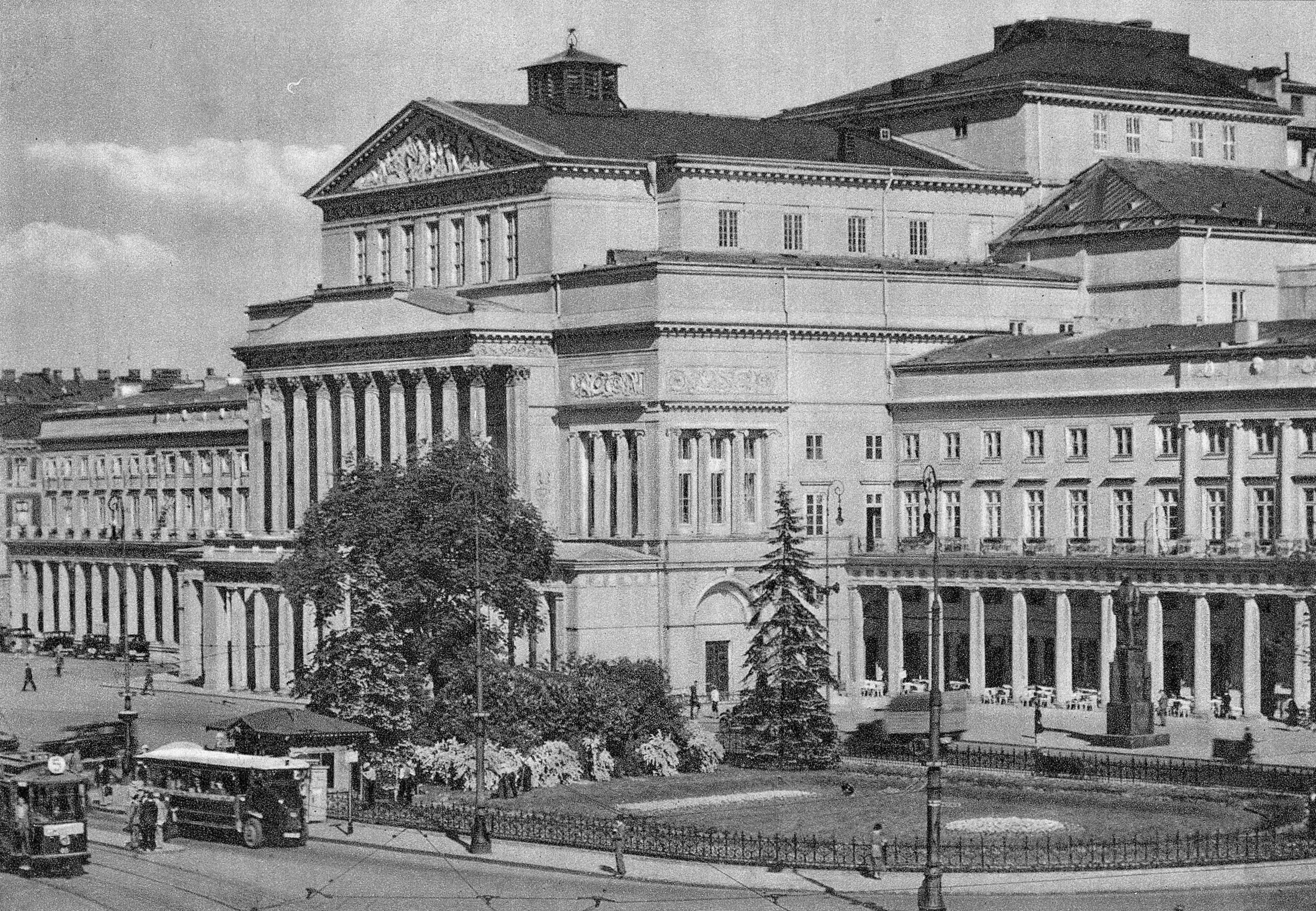 Great Theatre in Warsaw